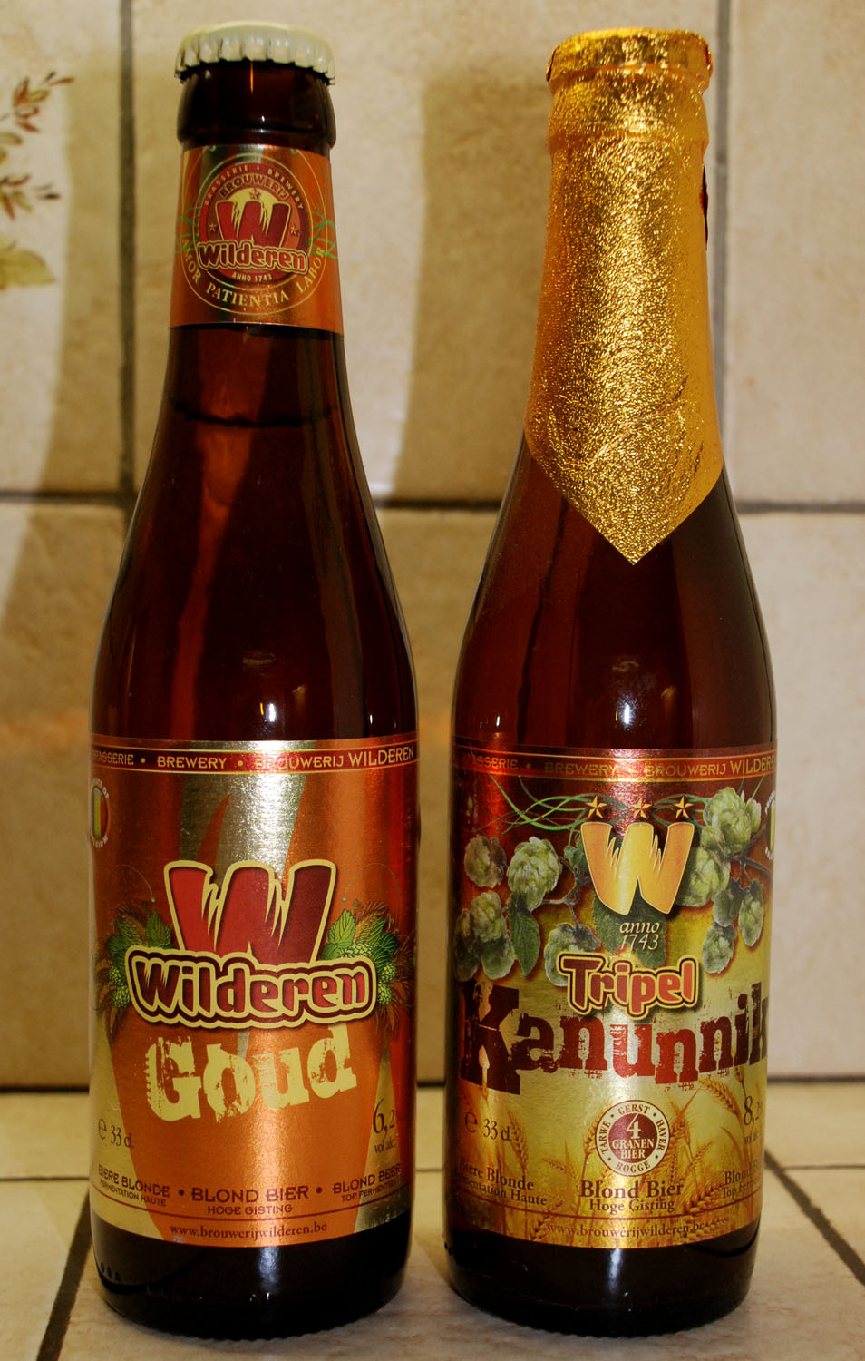 Brewery Wilderen, Belgian beers